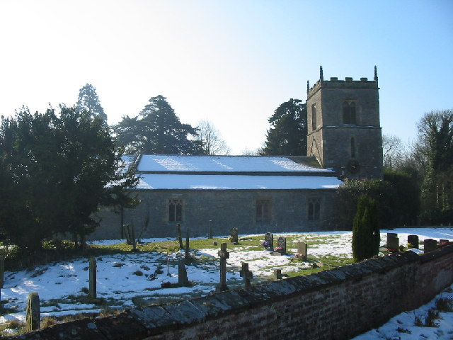 All Saints' parish church, Londesborough, East Riding of Yorkshire, England, seen from the north.